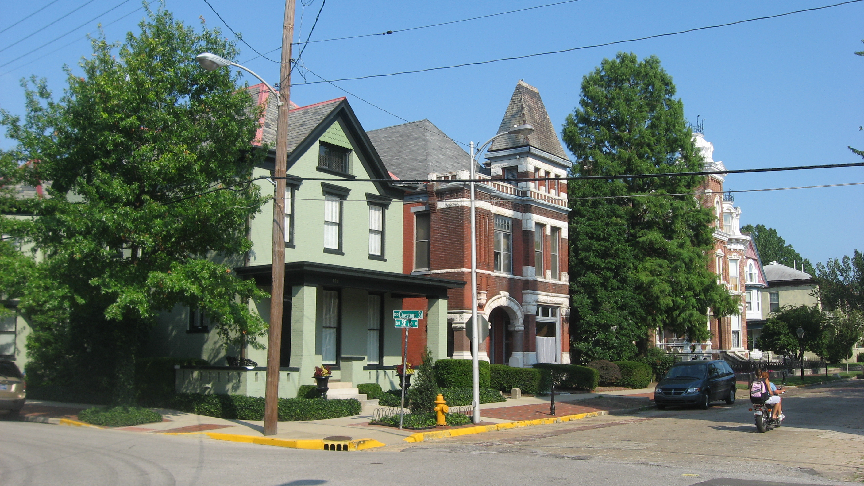 Houses on the eastern corner of the junction of Chestnut and First Streets in Evansville, Indiana, United States. This block is part of the Riverside Historic District, a historic district that is listed on the National Register of Historic Places. The houses in the picture were built in 1860, 1860, 1878, 1860, and 1854, respectively from left to right.